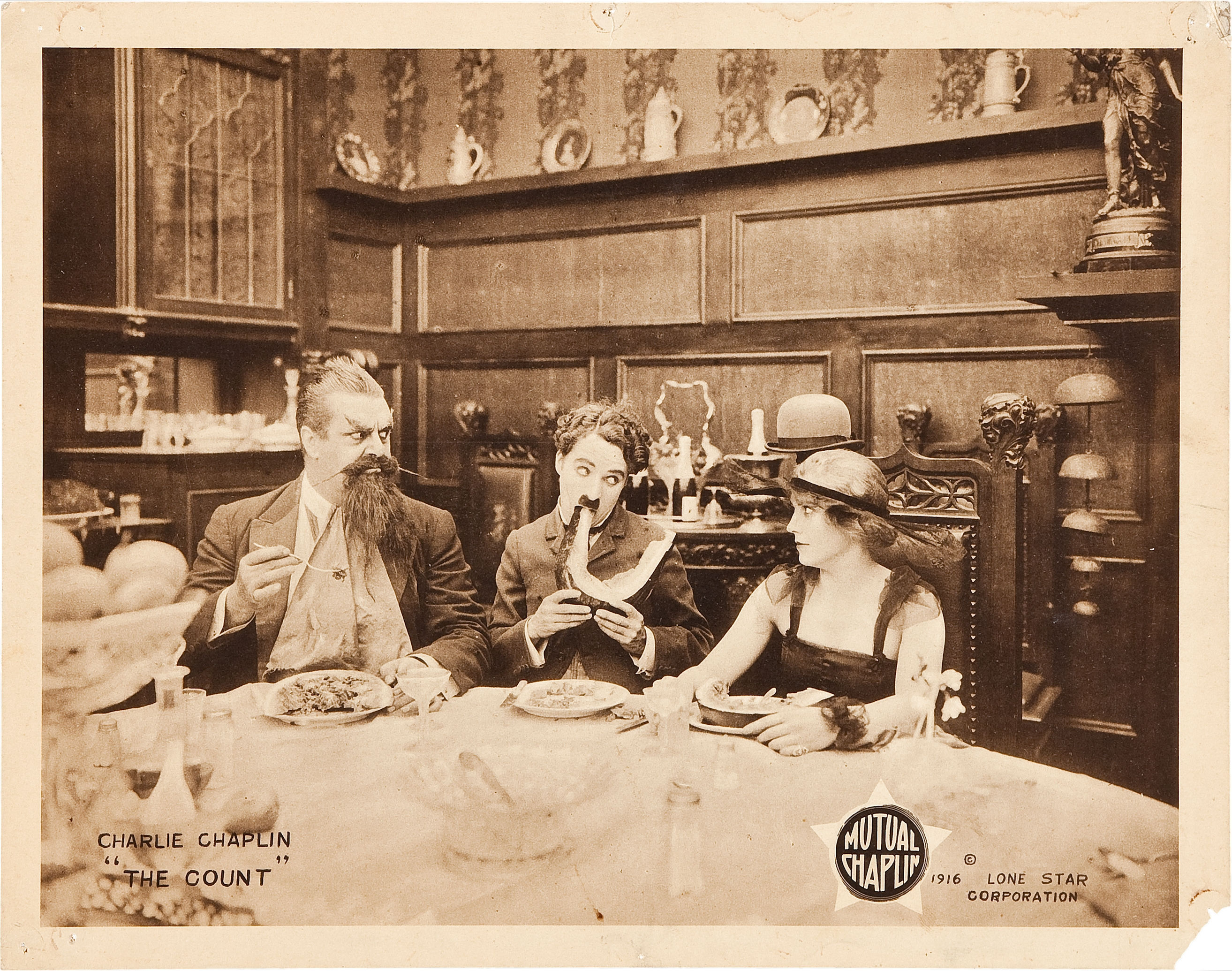 Lobby card for the American comedy short film The Count (1916).